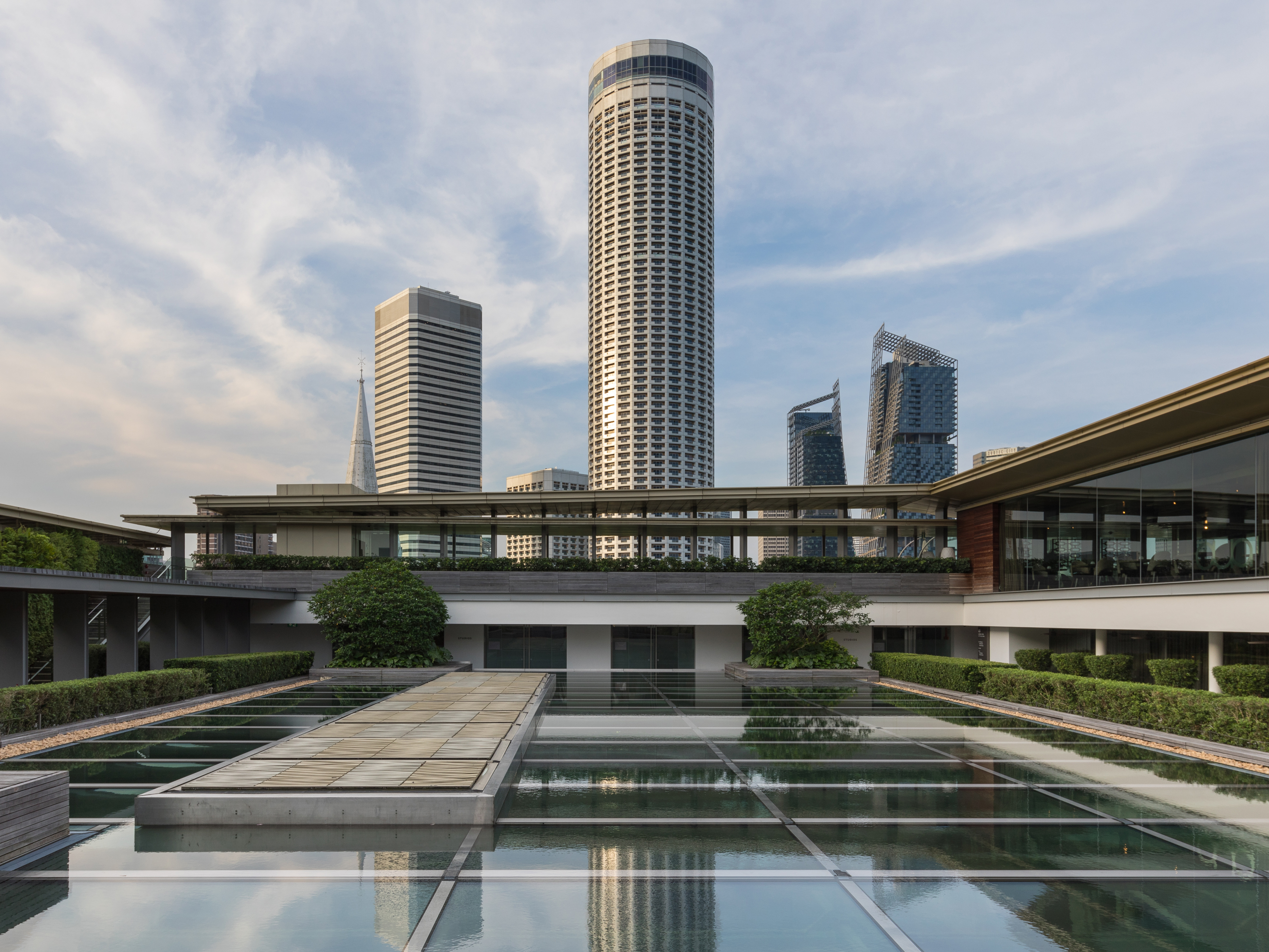 Skyscraper Swissôtel The Stamford reflecting in the basin of the roof garden at level 6 of the National Gallery in Singapore